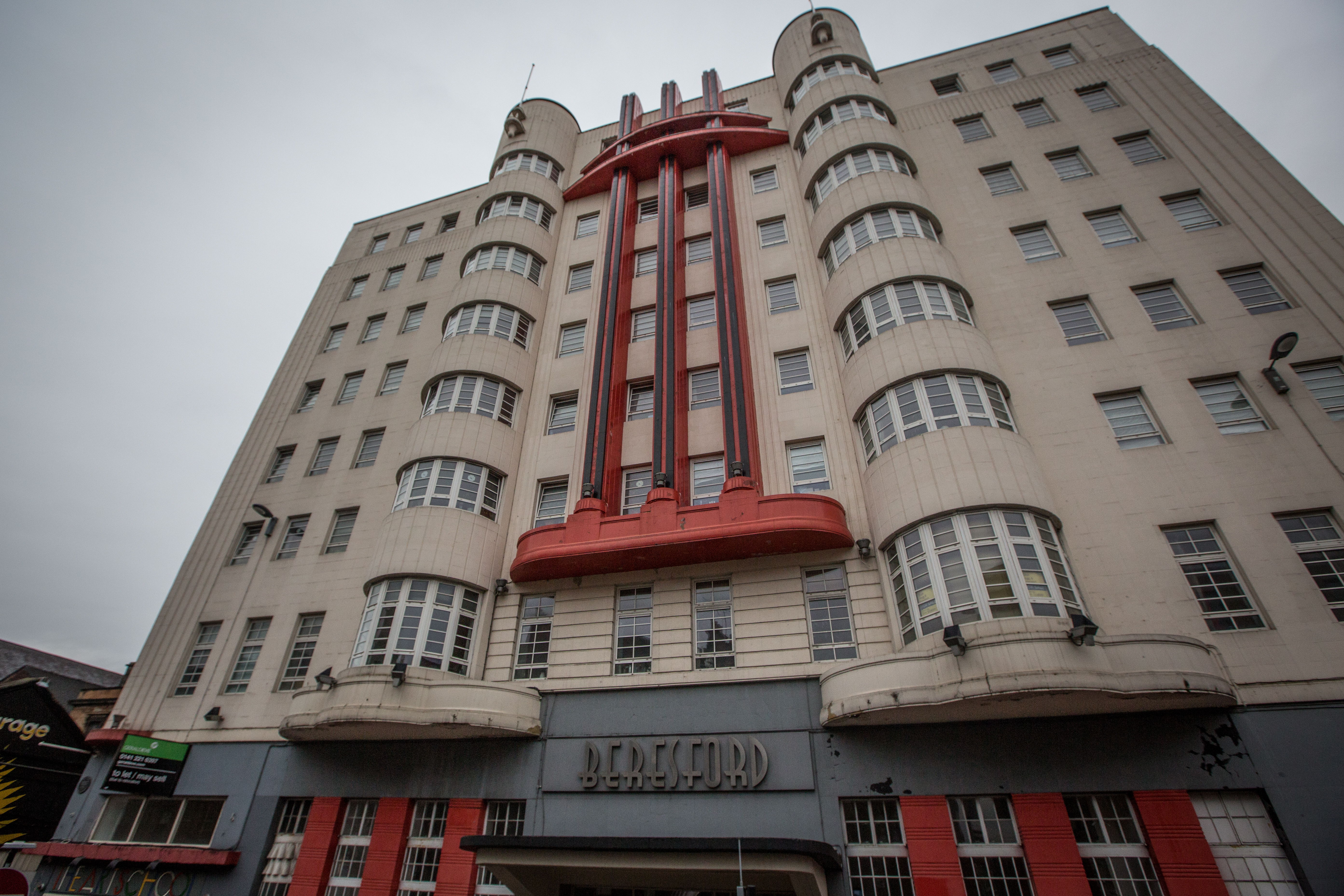 The Beresford, a hotel in art deco architectural style, in Glasgow, Scotland, United Kingdom in 2013.